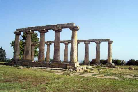 Hera Temple at Metaponto (Italy)